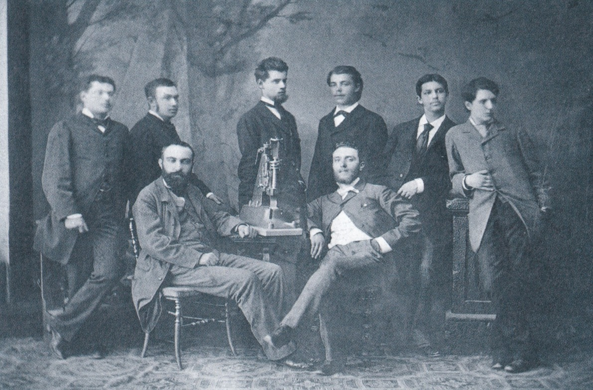 HTL Wiener Neustadt Absolventen 1880 81